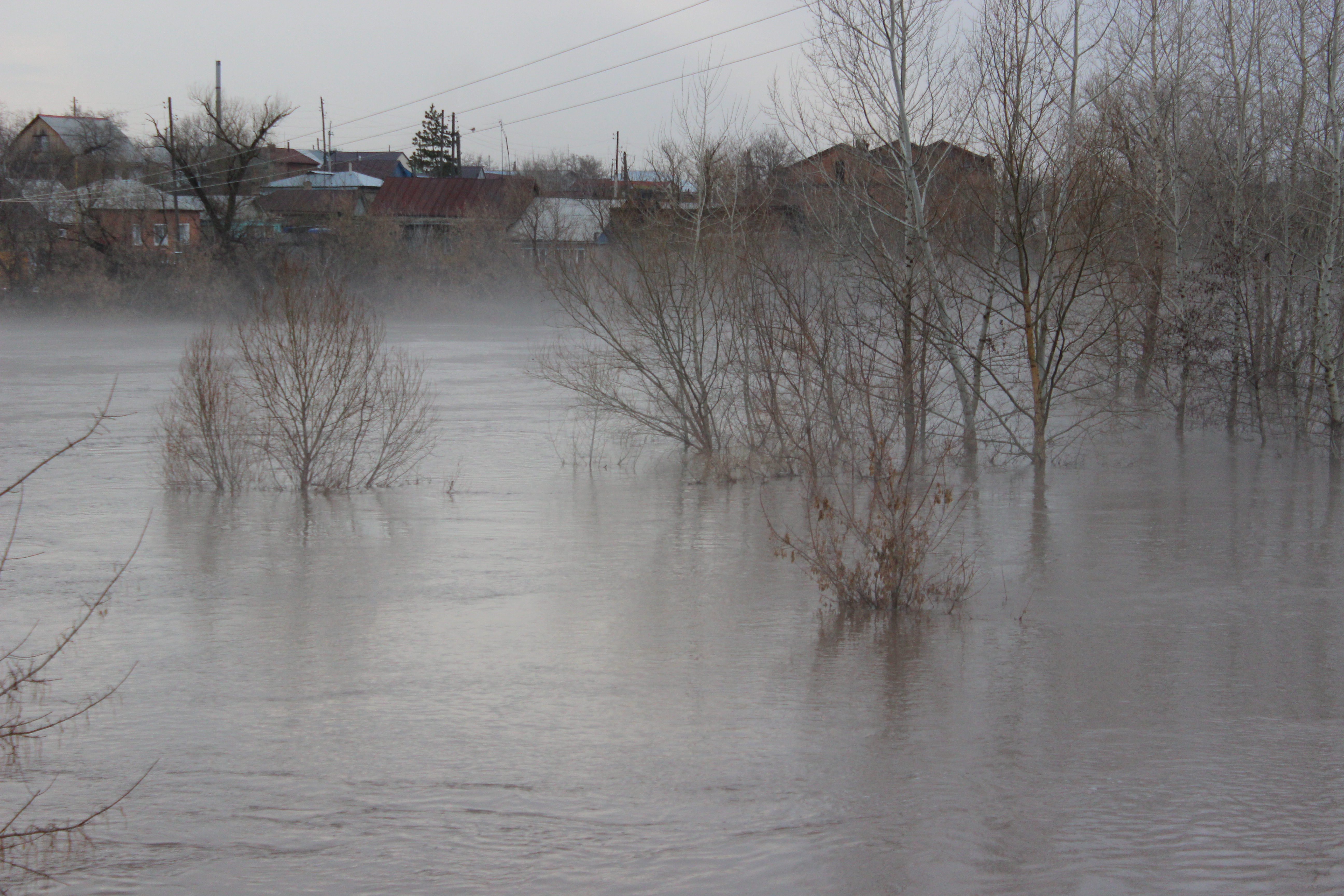 Sorochinsk. Old Bridge. The flood of 2013.